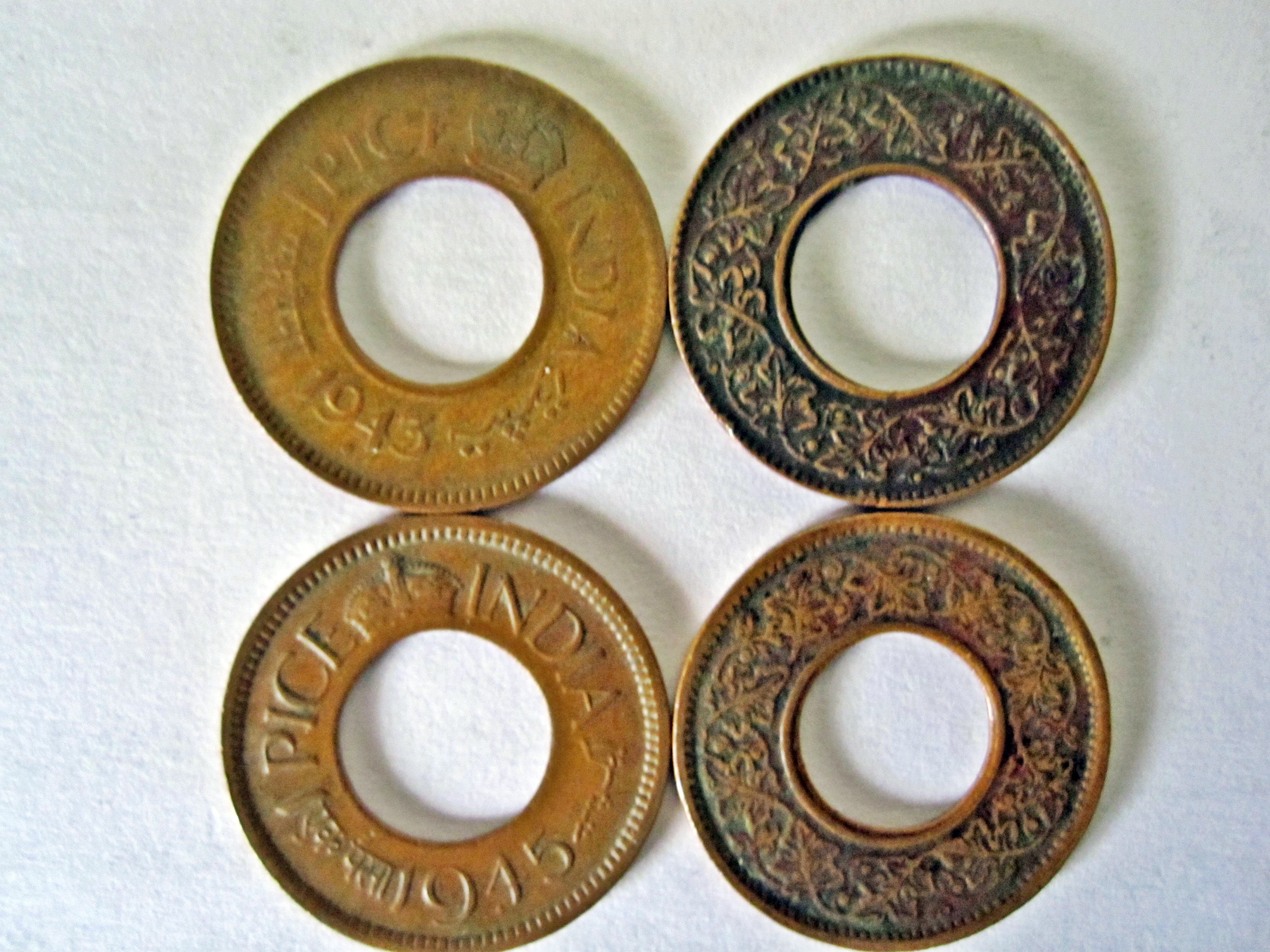 Holed 1/4 Ana (ஓட்டைக் காலணா / oattai kalana). Called so because of the round hole at the centre. The value is 1 pice/paise = 1/4 of an Ana. The coin designs themselves are in public domain per Indian coypright laws